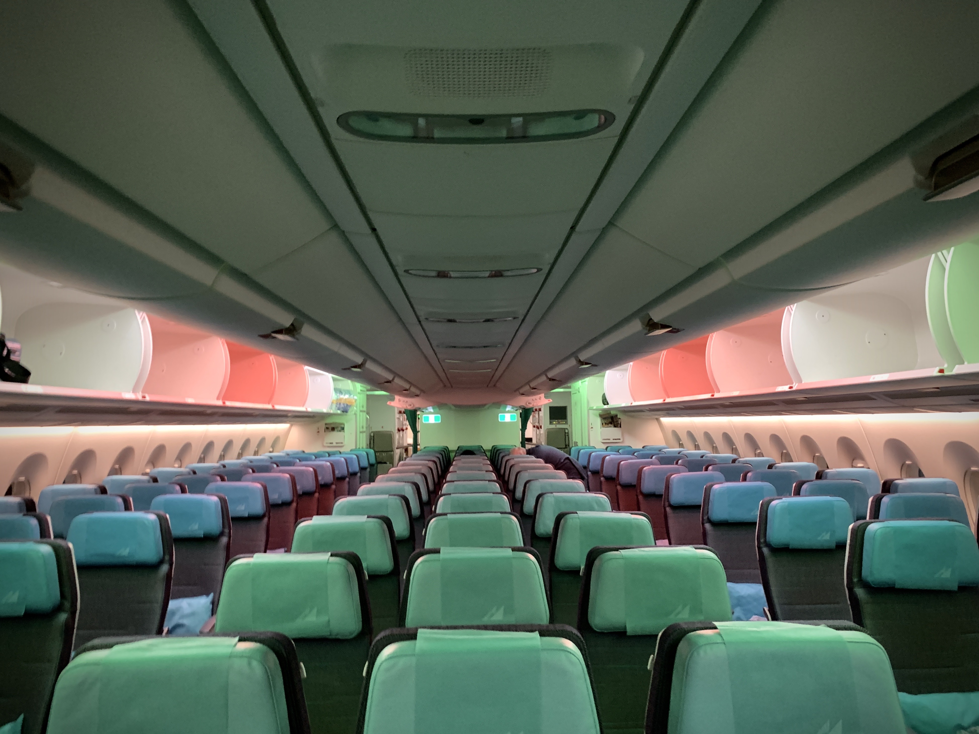 Economy class cabin on a Philippine Airlines Airbus A350-900